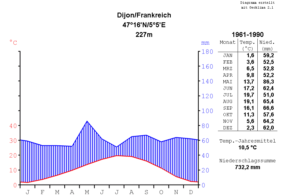 climate chart of Dijon, France, for the period of time from 1961 to 1990, in the format by Walter and Lieth, metric, °Celsius and millimeters, chart made with Geoklima 2.1, label in German